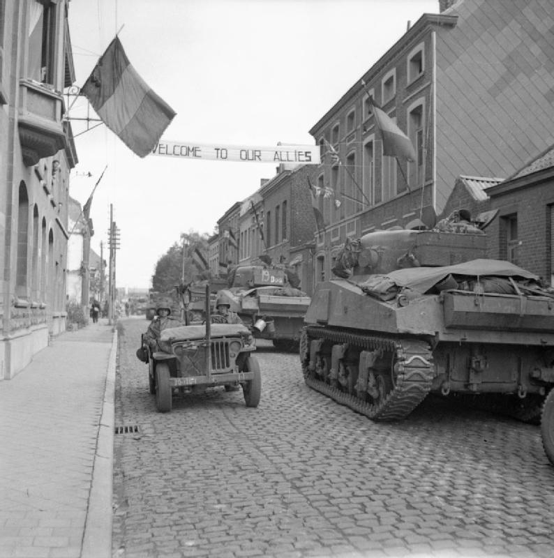 The British Army in North-west Europe 1944-45 Sherman tanks of 5th Guards Armoured Brigade pass an American jeep in Antoing, Belgium, 3 September 1944.